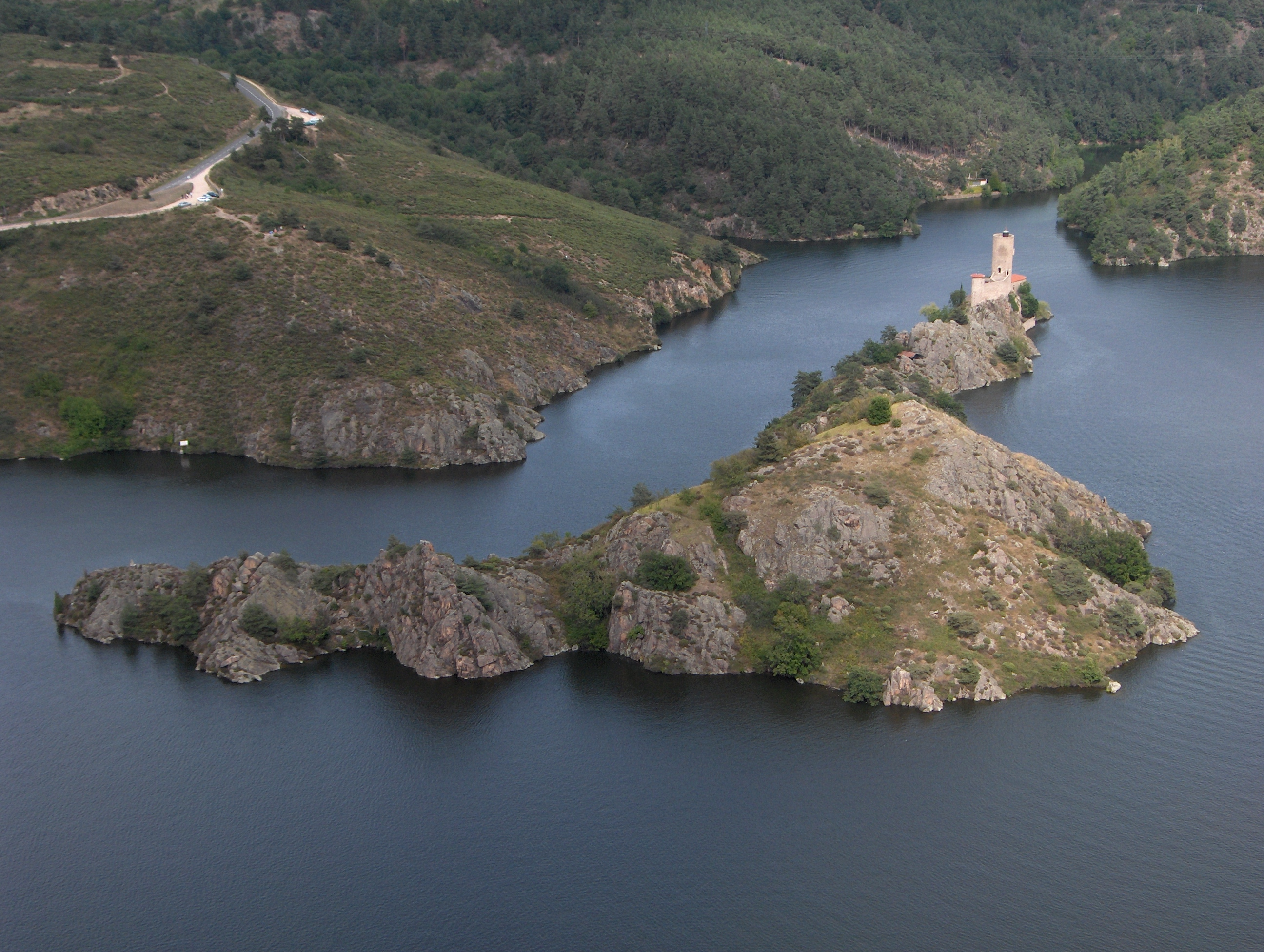 Island of Grangent, with the Château de Grangent (Loire, France).